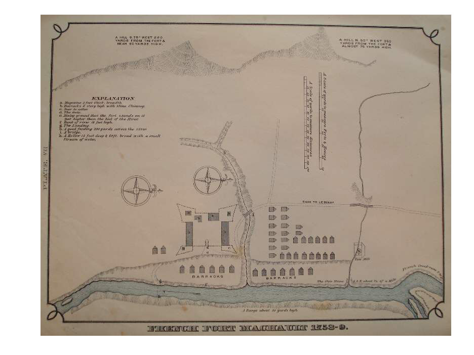 1879 History of Venango County Pennsylvania This map was taken from the "1879 History of Venango County Pennsylvania",it depicts the area where Fort Machault was stationed. This is current day Franklin, PA.